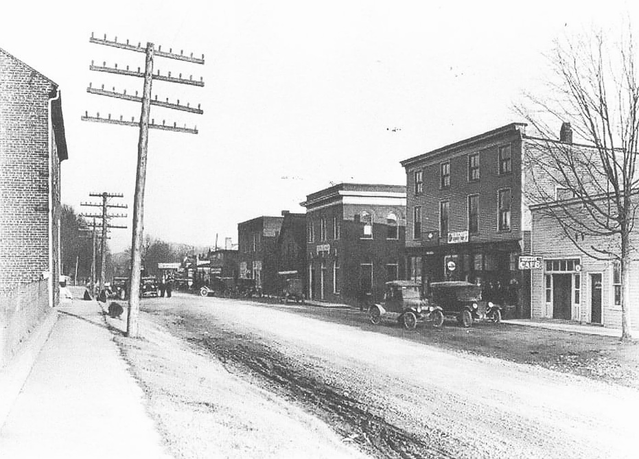 A picture of downtown Rutledge, Tennessee in the 1900s.